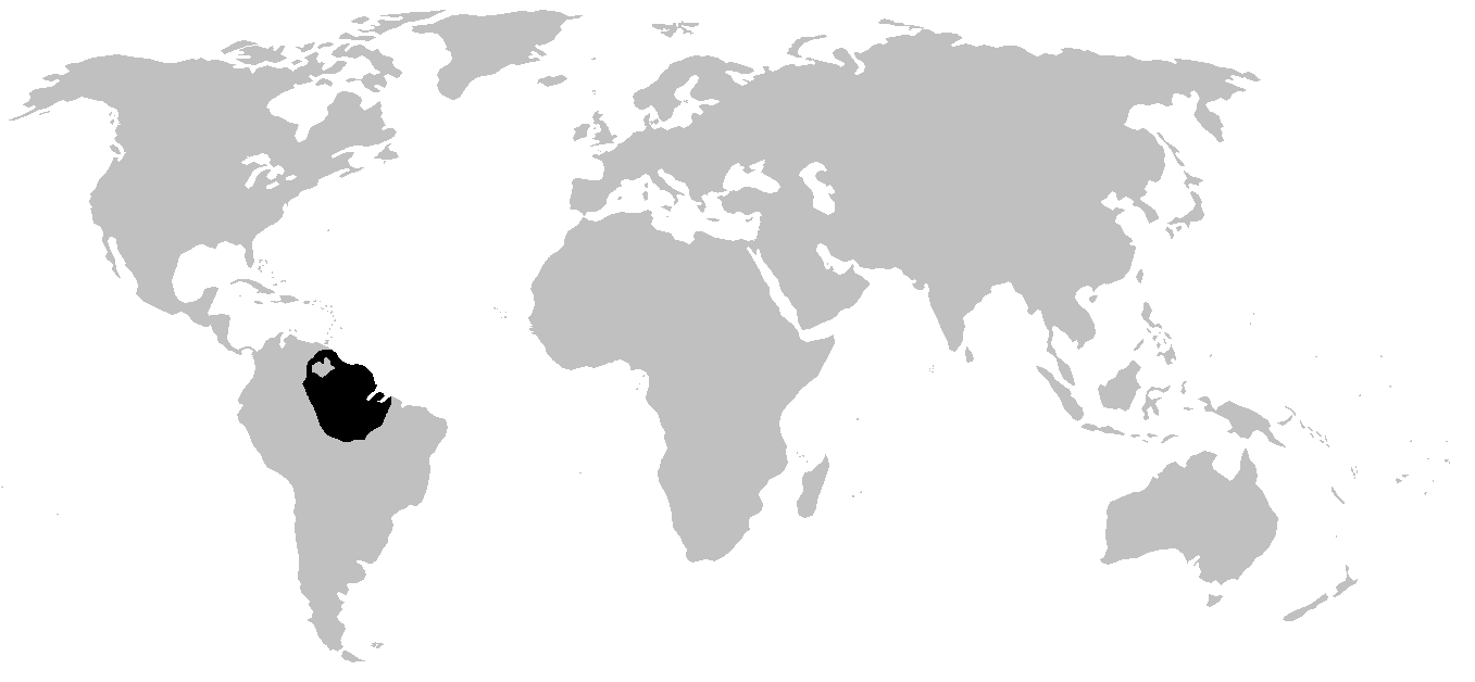 Distribution of Allophrynidae.